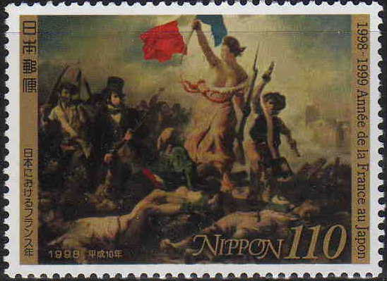 Stamp of Eugène Delacroix - La liberté guidant le peuple